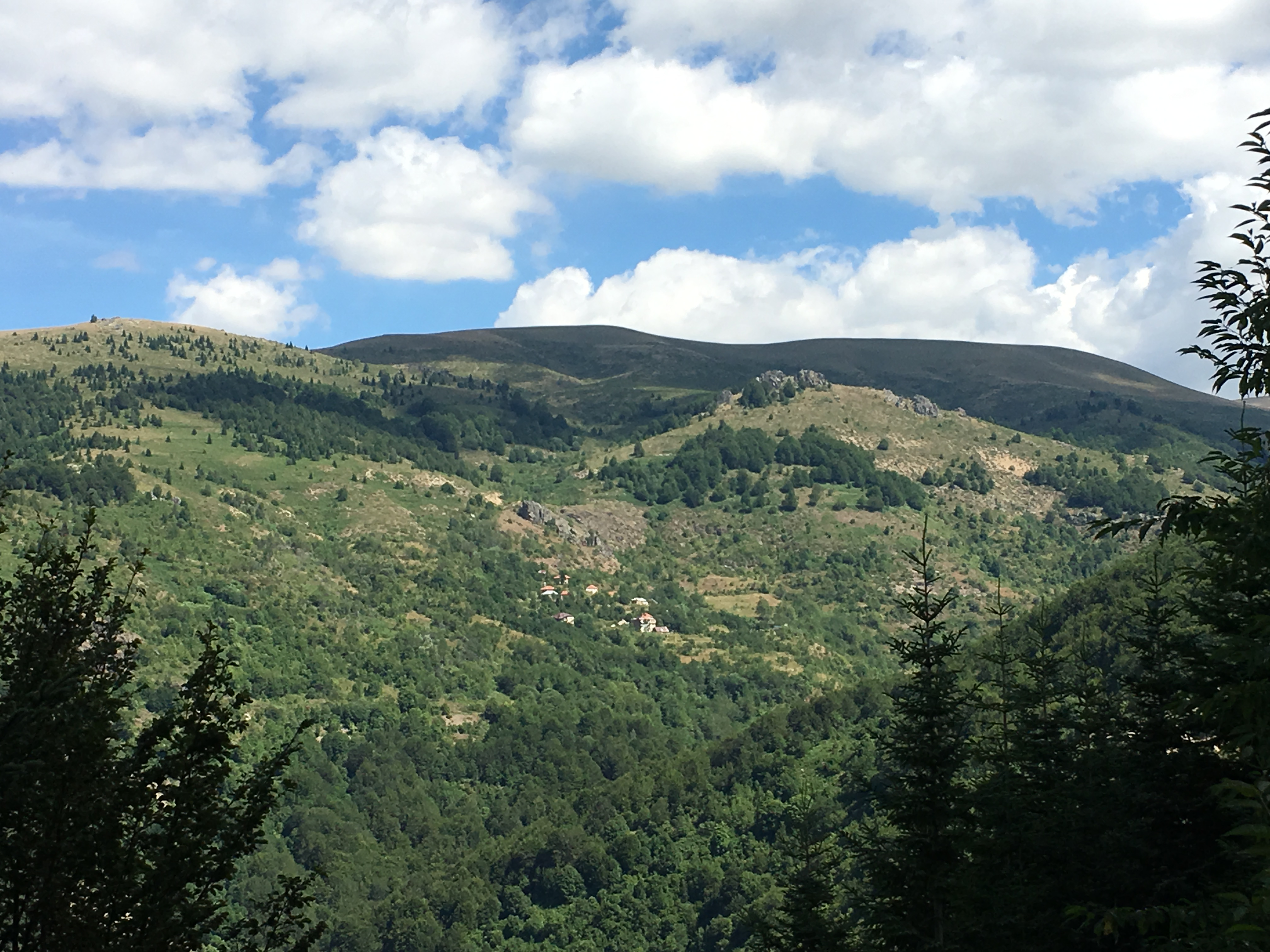 Panoramic view of the village of Ničpur